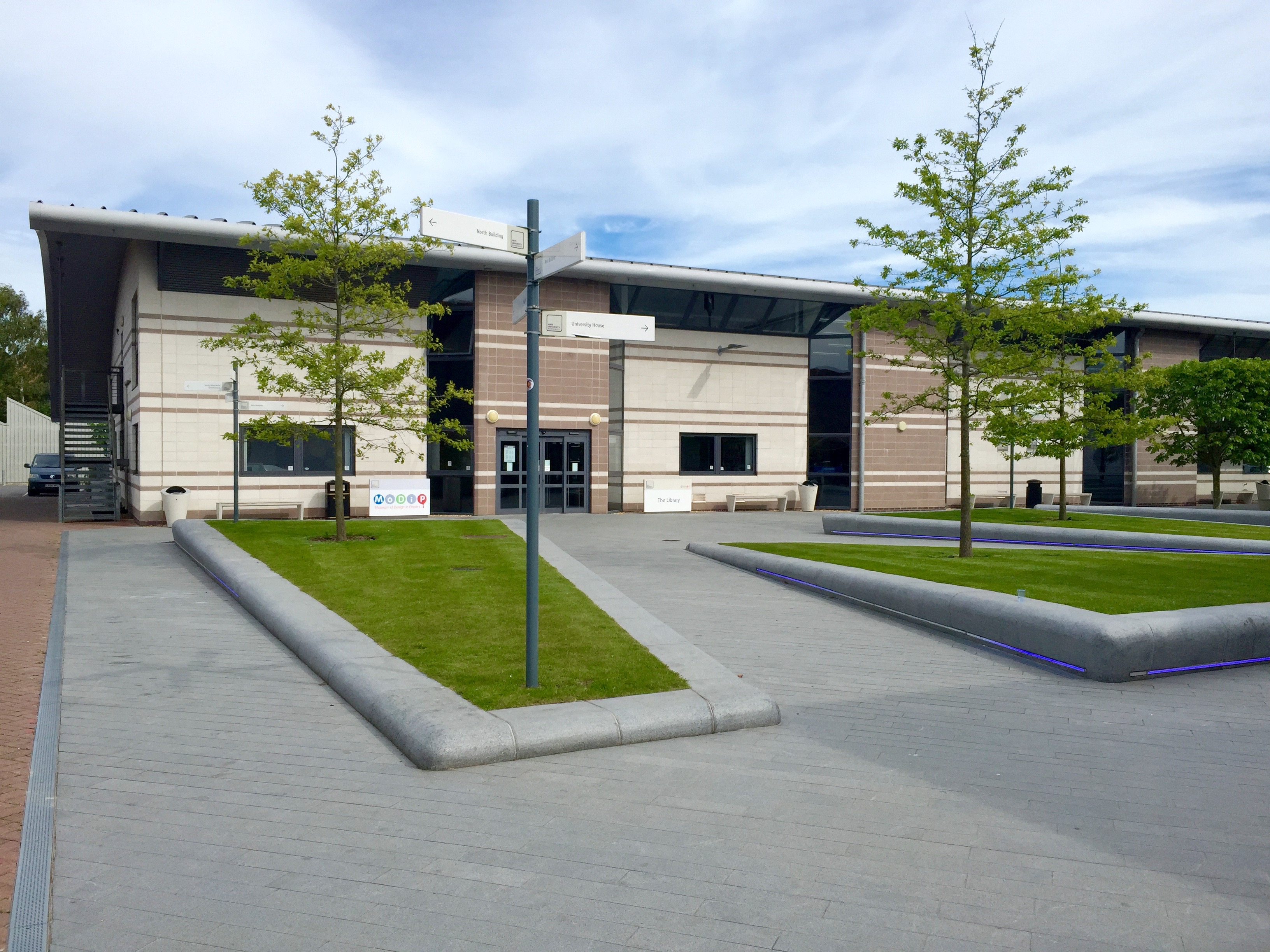 Arts University Bournemouth